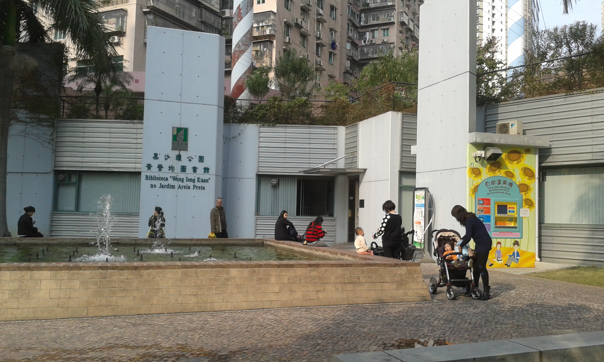 Wong Ieng Kuan Library in Areia Preta Urban Park